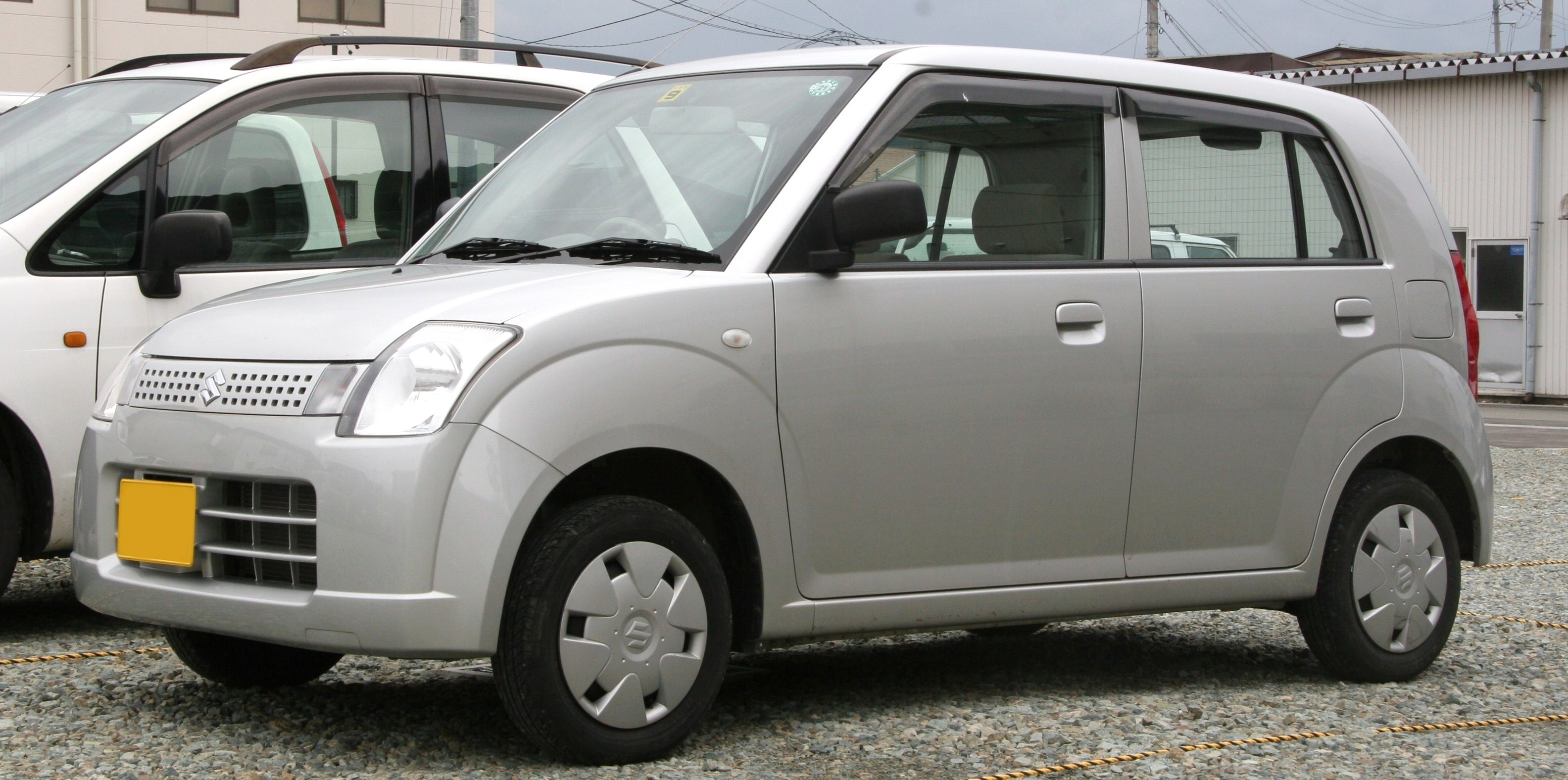 Suzuki Alto